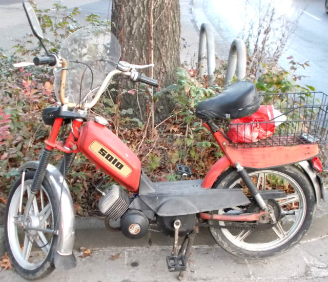 Moped of former german brand Solo, built in the 1980s.